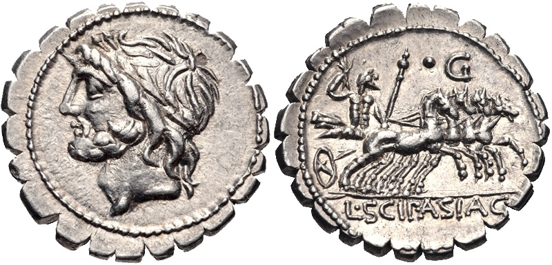 L. Scipio Asiagenus. 106 BC. AR Serrate Denarius (19mm, 4.01 g, 5h). Rome mint. Laureate head of Jupiter left Jupiter driving fast quadriga right, preparing to cast thunderbolt and holding scepter and reins; ·G above. Crawford 311/1d; Sydenham 576b; Cornelia 24. Superb EF.